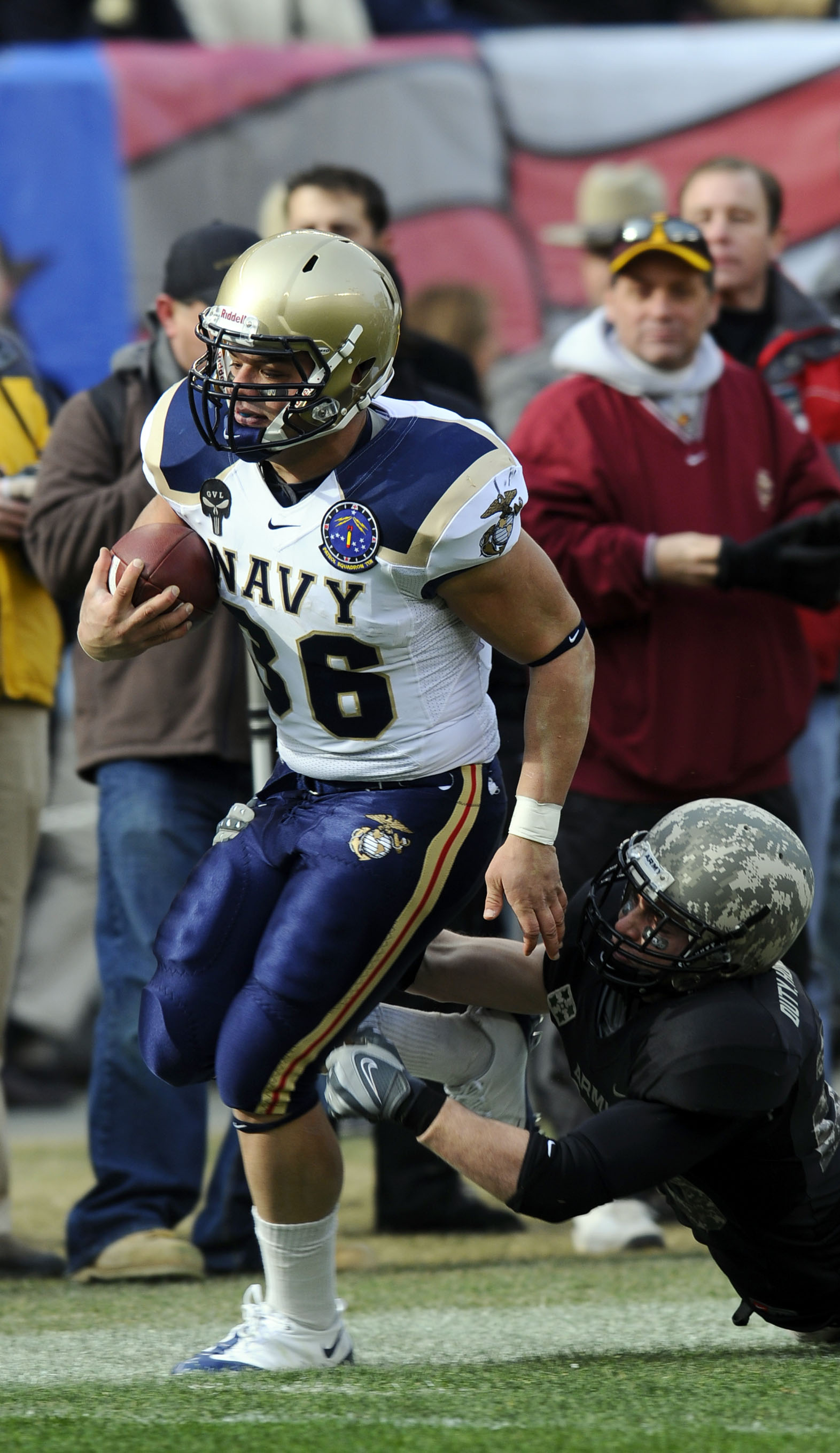 PHILADELPHIA (Dec. 6, 2008) U.S. Naval Academy fullback Eric Kettani (#36) gets past a U.S. Military defender during first half of the 109th Army-Navy college football game at Lincoln Financial Field in Philadelphia. (U.S. Navy photo by Mass Communication Specialist 2nd Class Kristopher Wilson/Released)